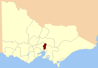 Electoral district of Ovens, Victorian Legislative Assembly. 1856